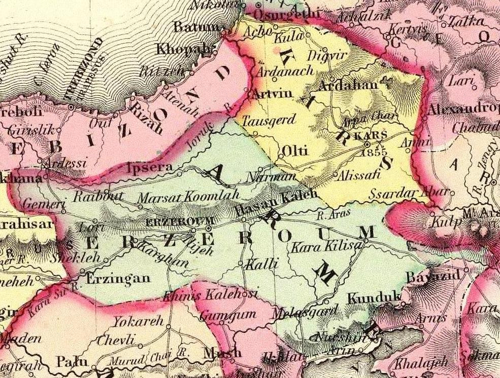 Turkey In Asia And The Caucasian Provinces Of Russia. Published By J.H. Colton & Co. No. 172 William St. New York. Entered ... 1855 by J.H. Colton & Co. ... New York. No. 25